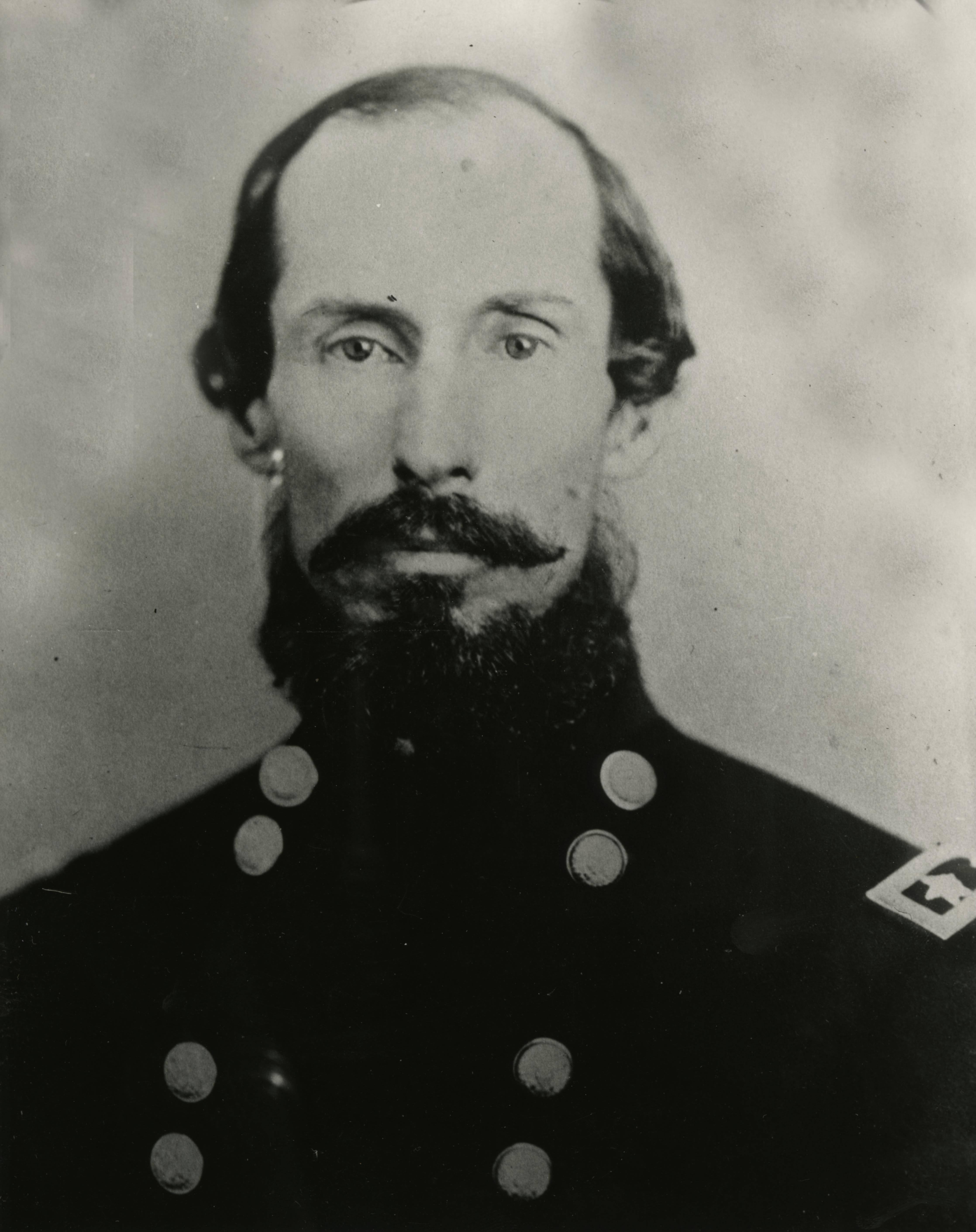 Photo of Marshall F. Moore, Governor of the territory of Washington from 1867–1869.